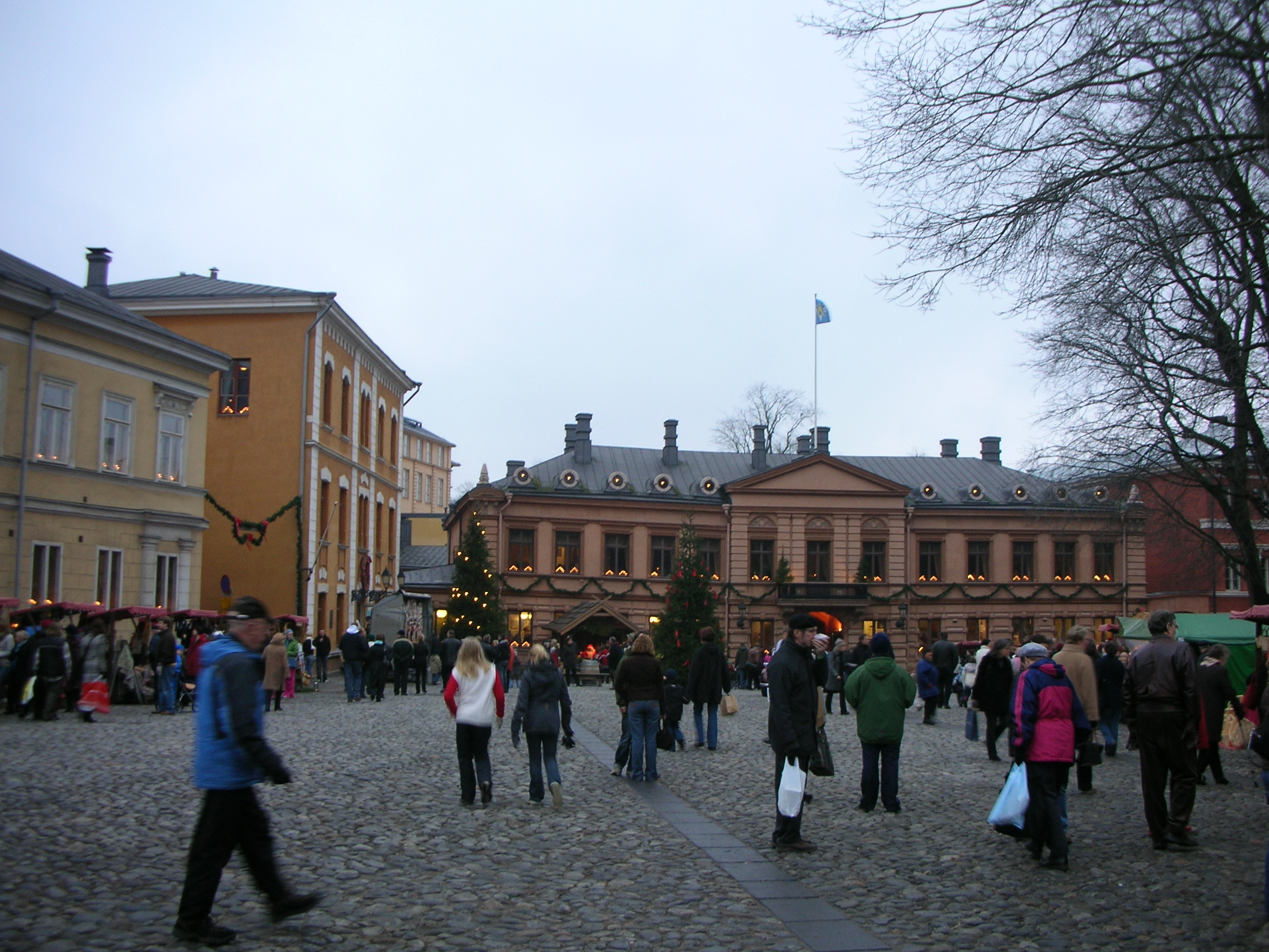 Old Great Square in Turku, Finland